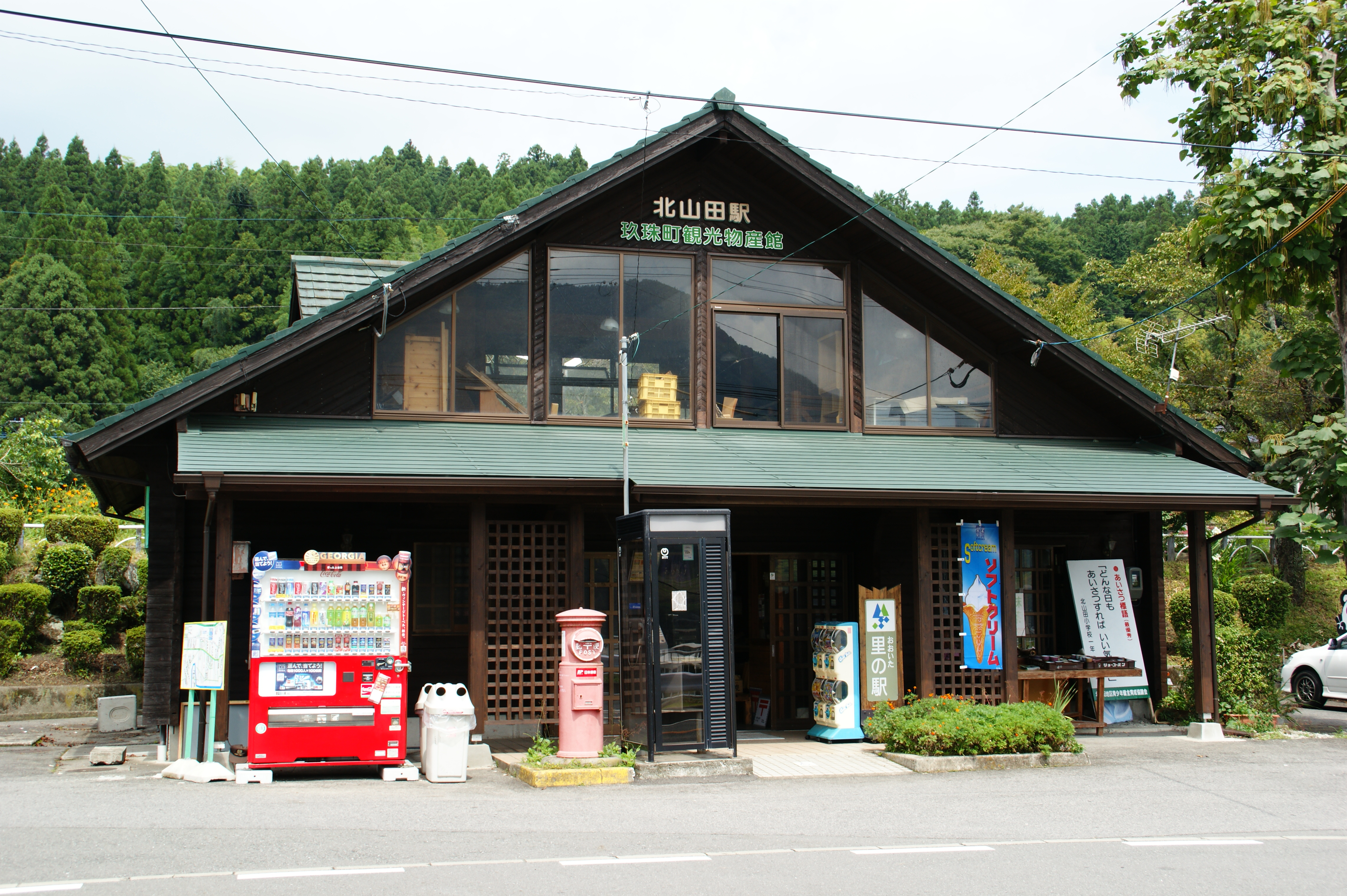 Kyushu Railway, Kita-Yamada Station.(Kusu Town, Oita Prefecture, Japan)